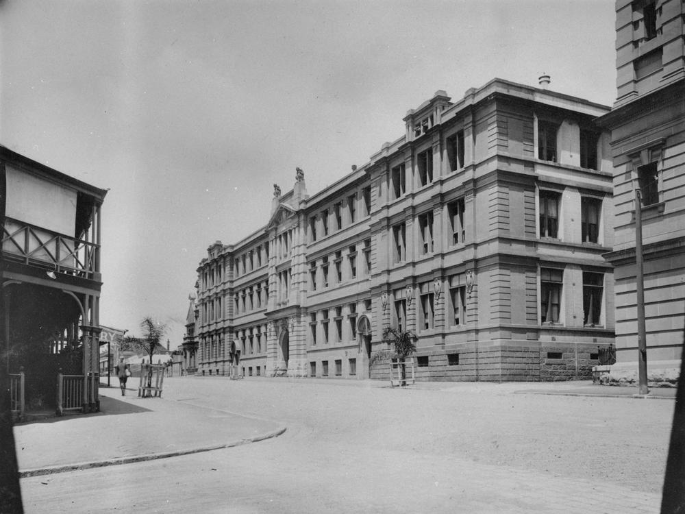 View of the Government Printing Office in George Street, Brisbane, 1920.